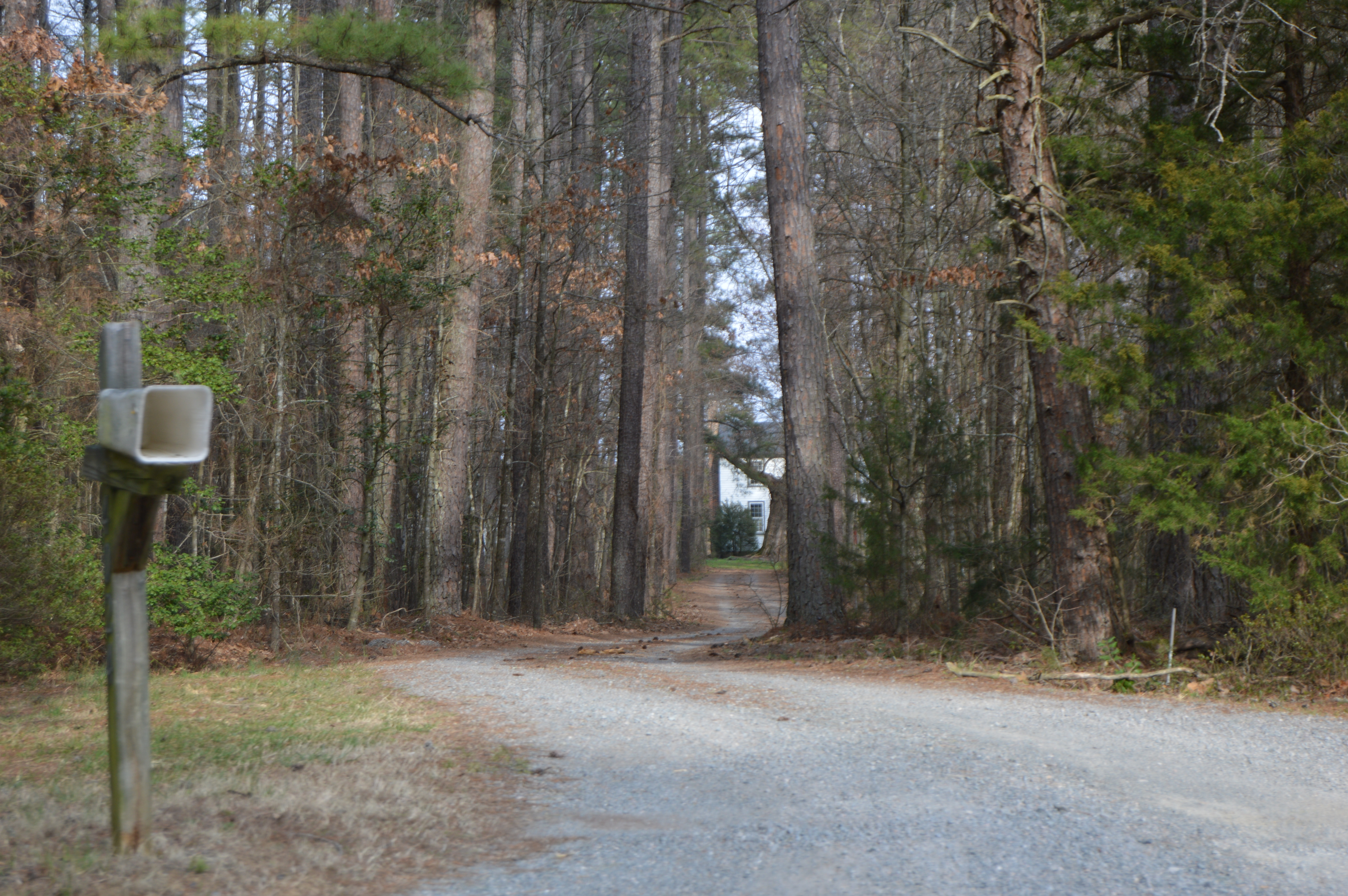 Driveway to, and distant view of, the house at the Belvidere property, located at 4024 Pace Road just south of Hadensville in Goochland County, Virginia, United States. The property is listed on the National Register of Historic Places.